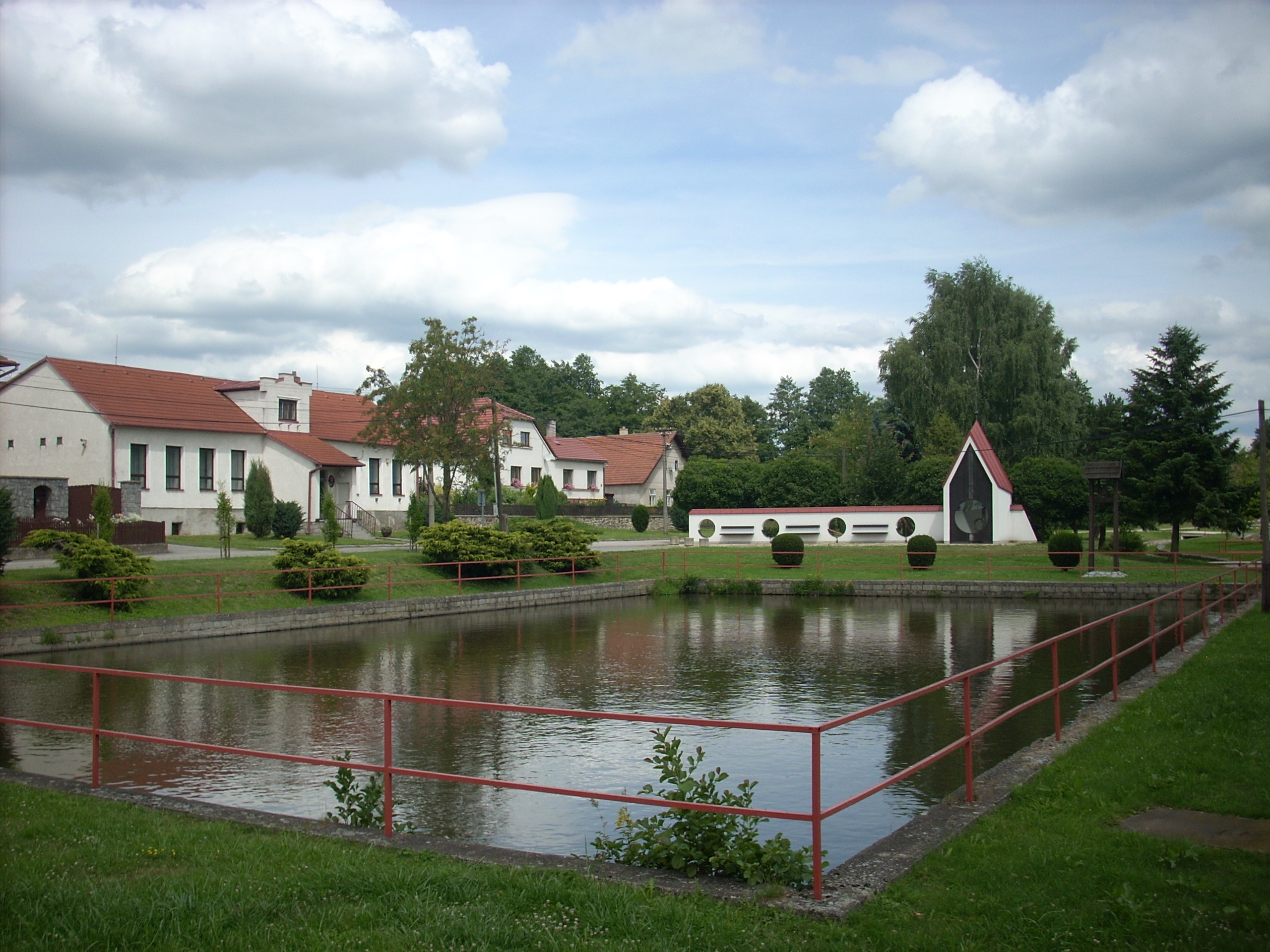 Věžnice, Jihlava District - Memorial to the Millennium with bell tower